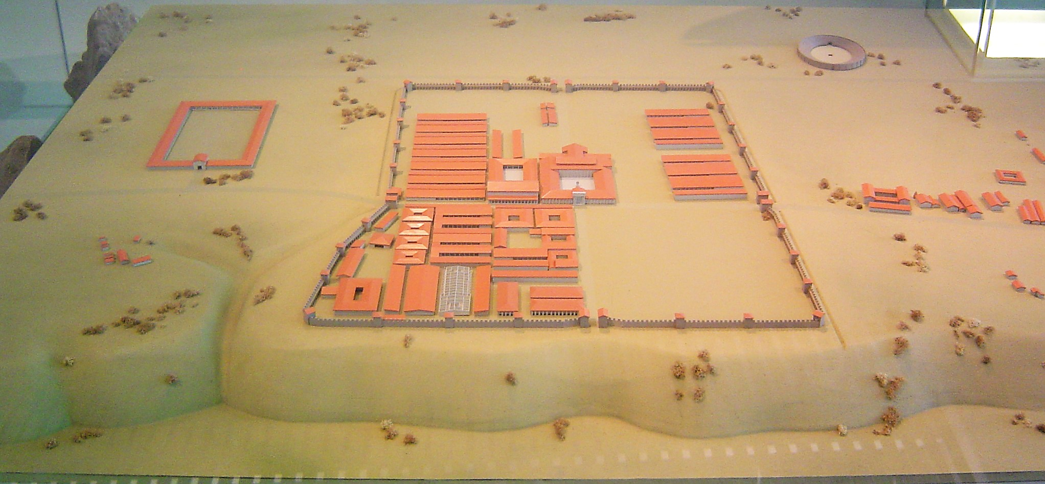 Model of the Castra near Ulpia Noviomagus Batavorum, Museum Het Valkhof Nijmegen, the Netherlands Museum Het Valkhof Native nameMuseum Het ValkhofLocationNijmegen AddressKelfkensbos 596511 TB NijmegenNetherlandsCoordinates51° 50′ 47″ N, 5° 52′ 16″ E Established1999 Web page control : Q1127079 VIAF: 158715438 ISNI: 0000 0004 0533 6734 LCCN: no2002025807 GND: 5519052-2 SUDOC: 075891700 WorldCat institution QS:P195,Q1127079